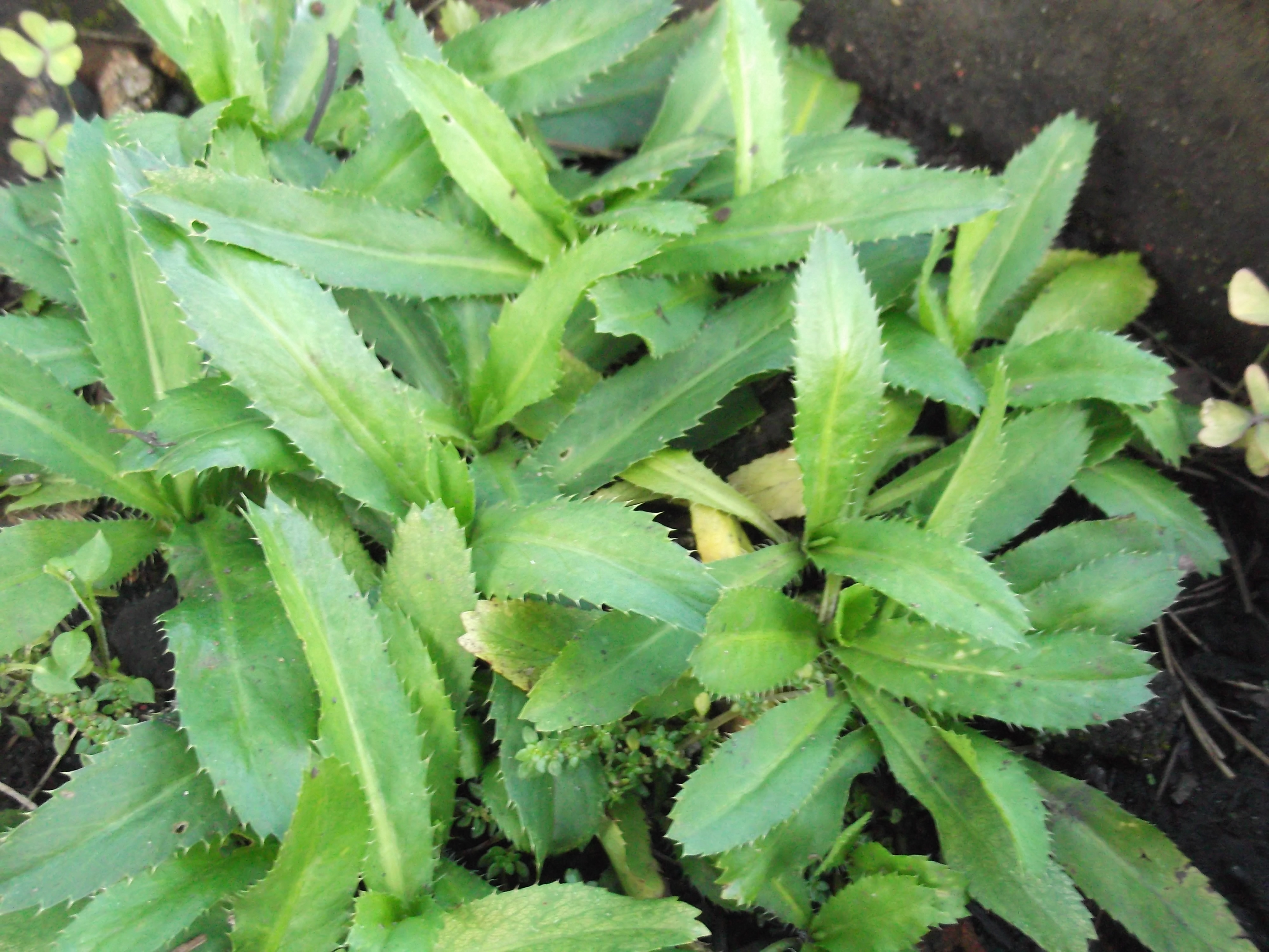 Herb,leaves green,edged by thorny teeth,flowers cone like heads,whitish.